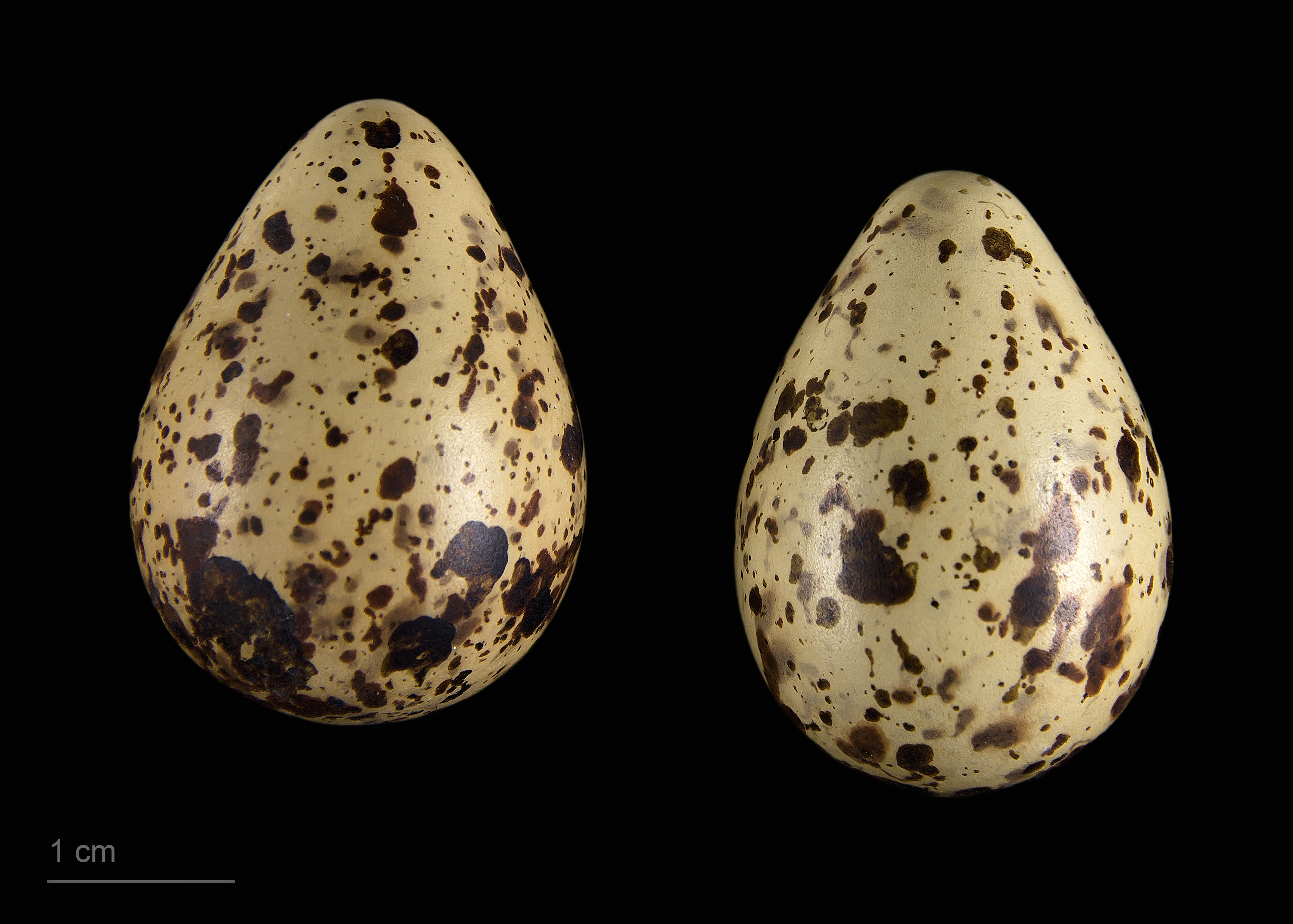 Eggs of little stint Two specimens of the same spawn ; collection of Jacques Perrin de Brichambaut.